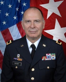 US Department of State portrait of William Enyart